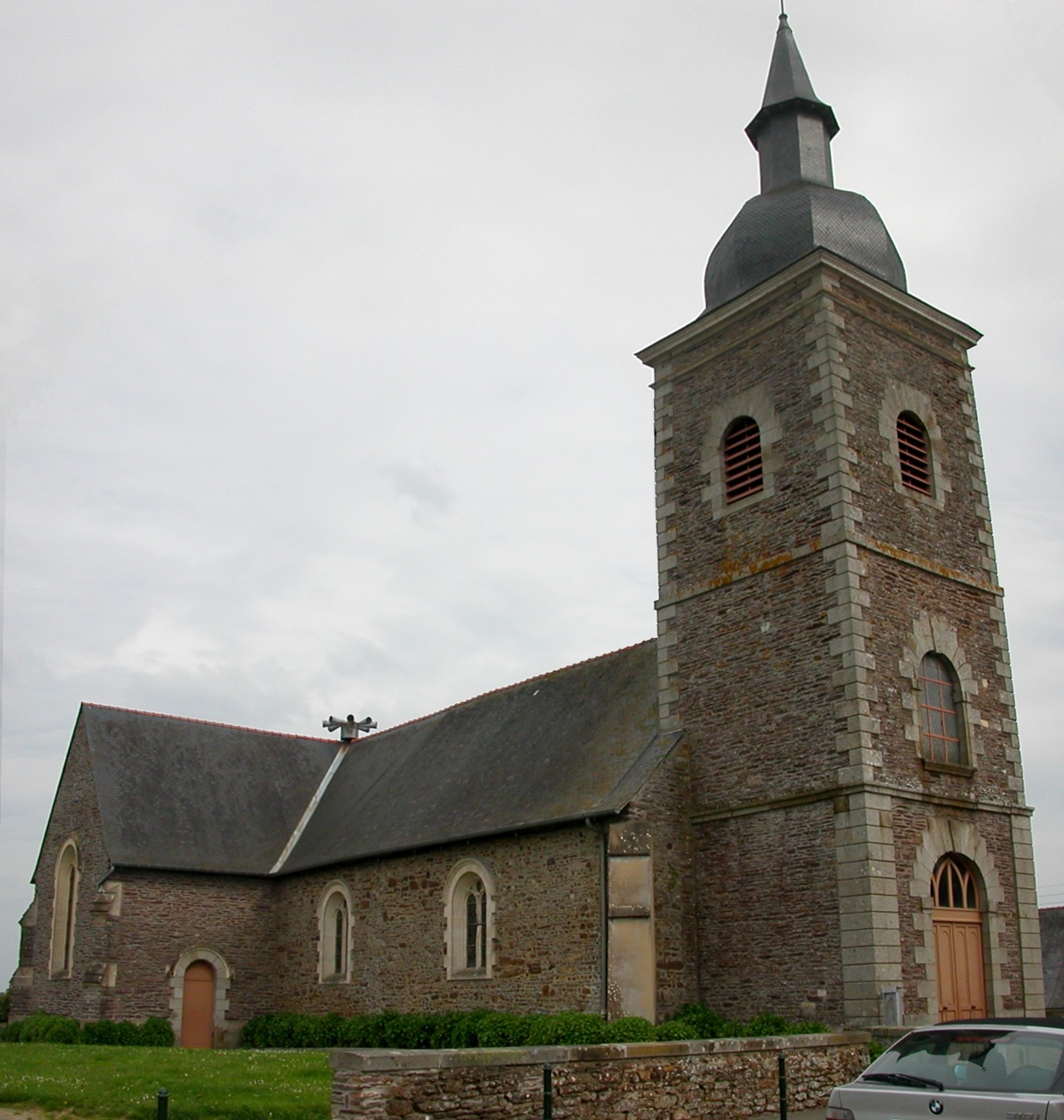 Saint-Martin church in Noyal-Châtillon-sur-Seiche - former church of Noyal-sur-Seiche